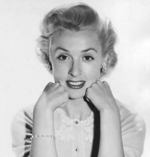 Publicity photo of actress Elena Verdugo.